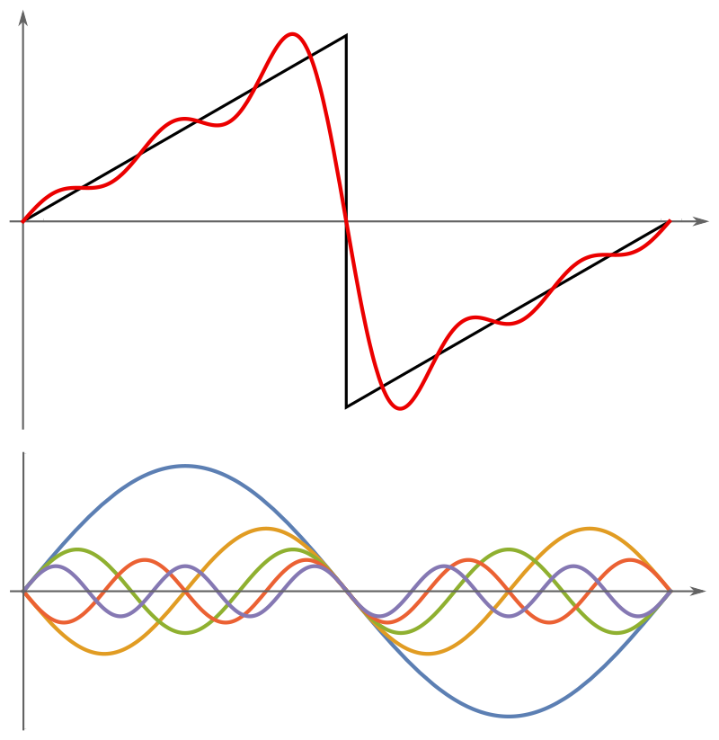 Fourier series for sawtooth wave